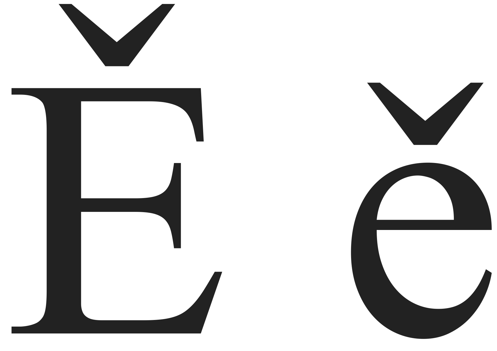 Doulos SIL glyphs for Majuscule and minuscule ě.